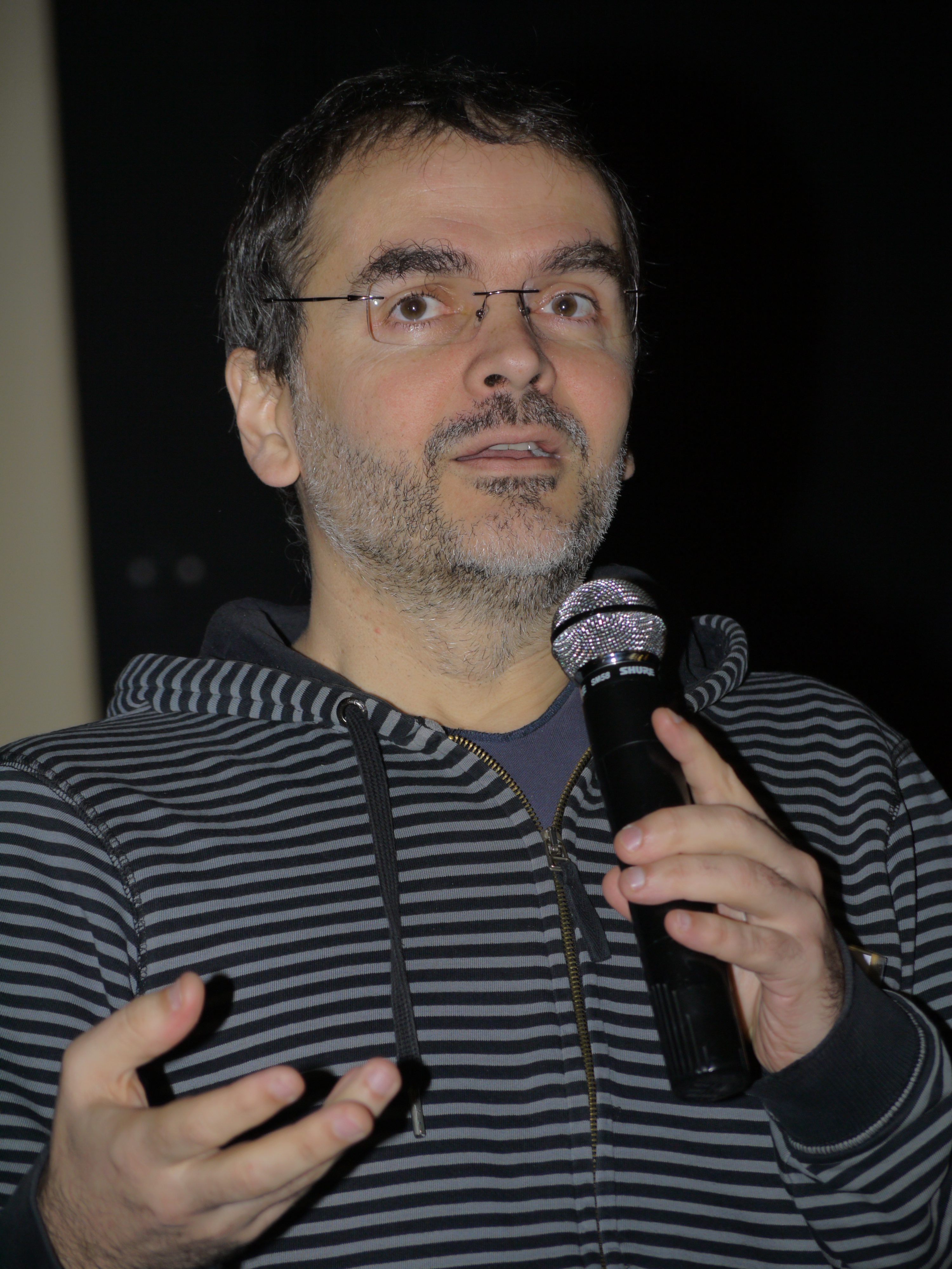 Loïc Dachary, photograph taken during the first day of 'Journée de l'Informatique Libre" ('Day of the Libre Computing') in Toulon in France, on the 15th of january 2011.